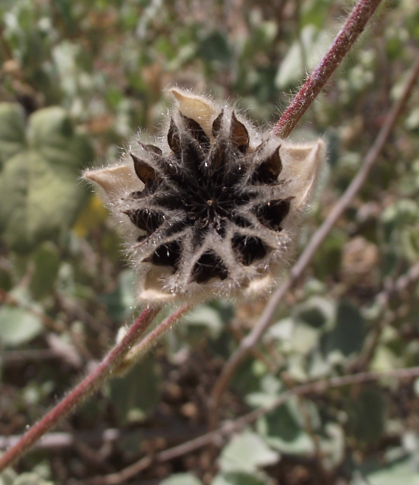 Abutilon palmeri at the San Diego Zoo Safari Park, Escondido, CA, USA